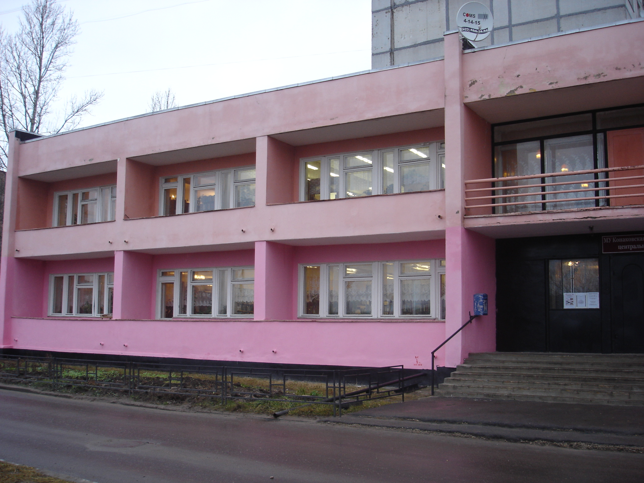 Konakovo city municipal library. Tver region, Russia.